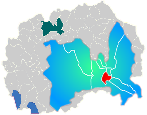 Map of Centar municipality.